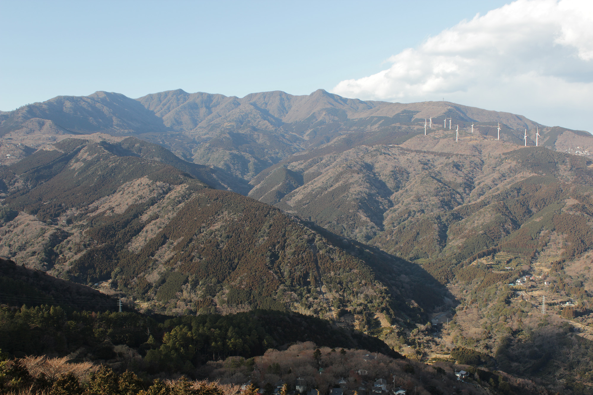 Mount Amagi as seen from SSE in Izu Peninsula, Shizuoka Prefecture, Honshu, Japan. Taken from Mount Asama.